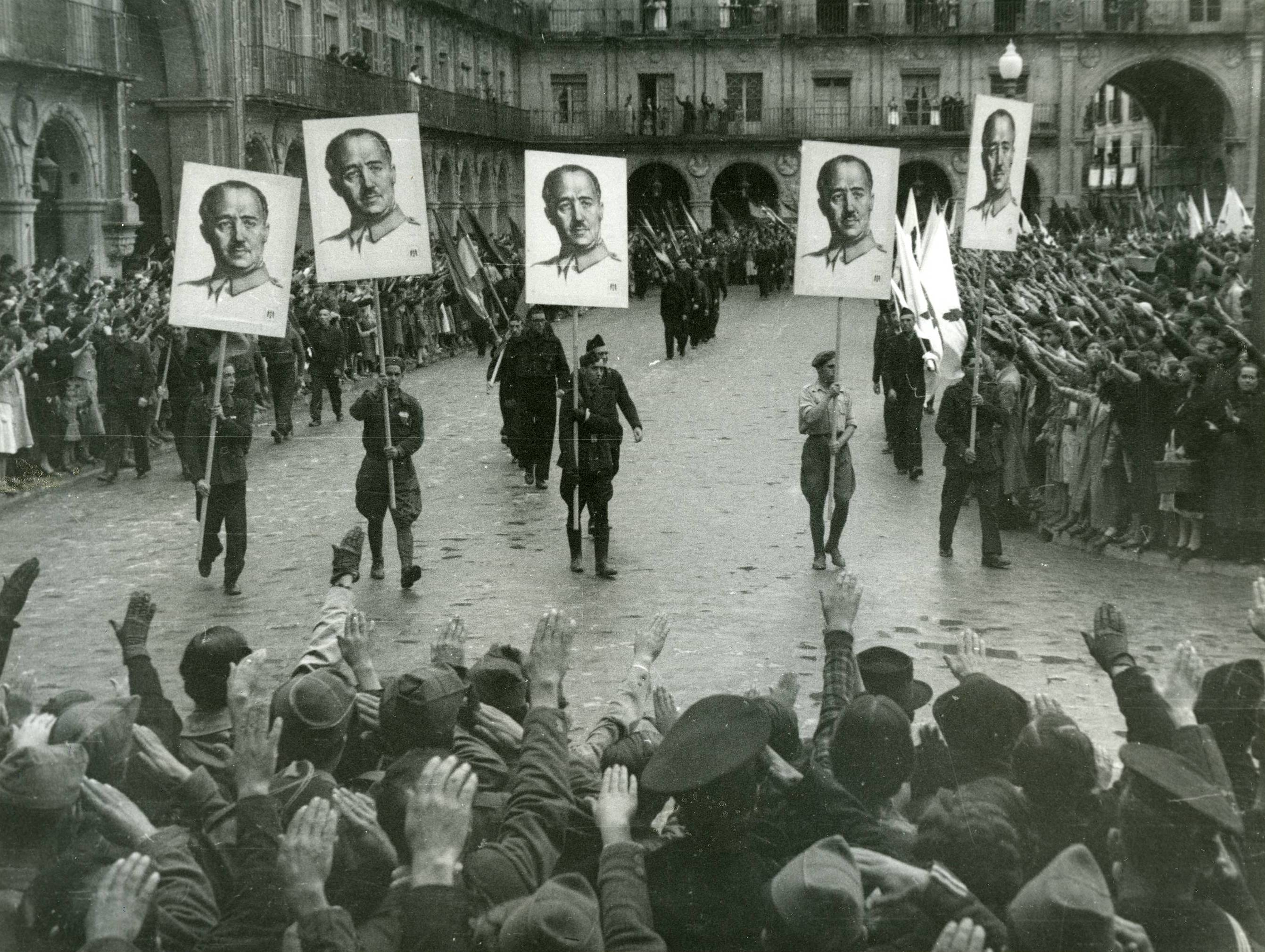 Demonstration in Salamanca, Spain, to celebrate the occupation of Gijón by Francoist troops.